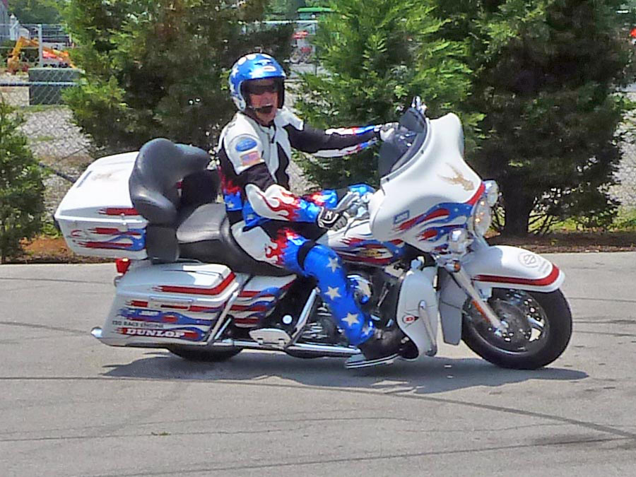 Bubba Blackwell performing stunts on a Harley-Davidson Ultra Glide Classic motorcycle